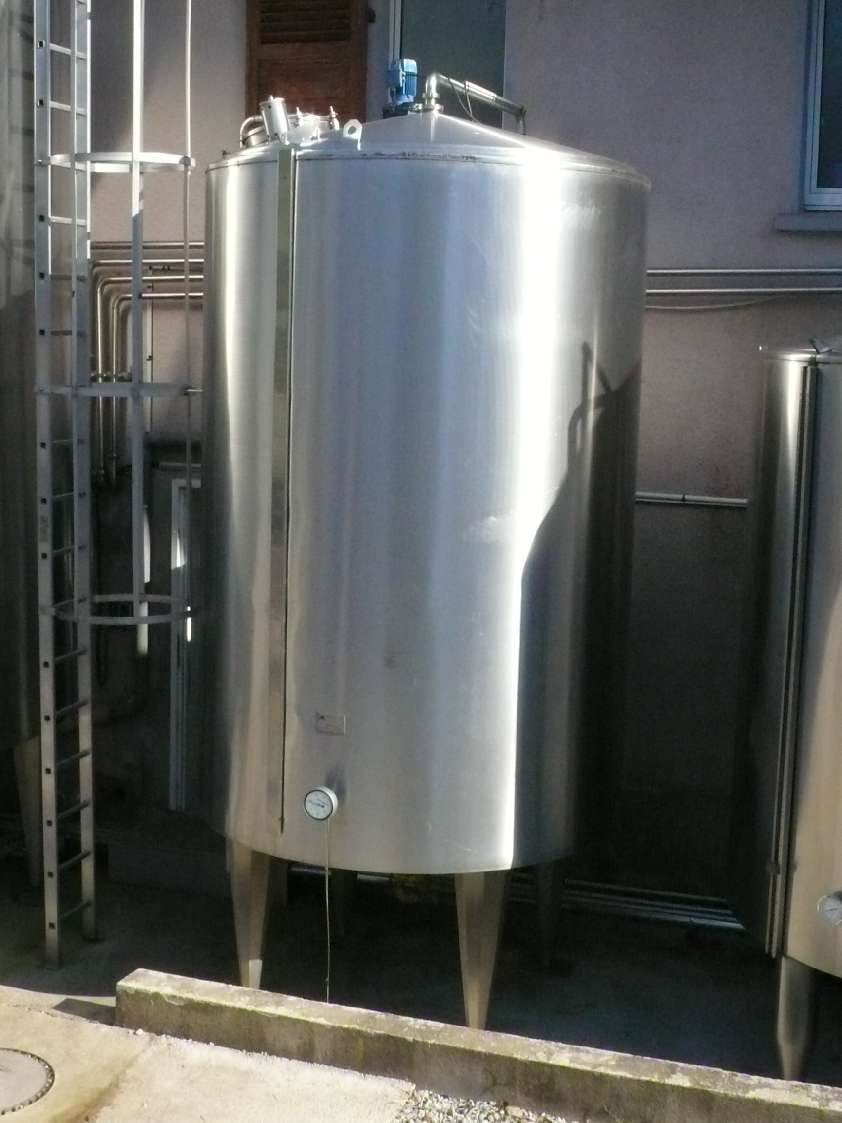 Tank à lait à la fruitière de Fontain